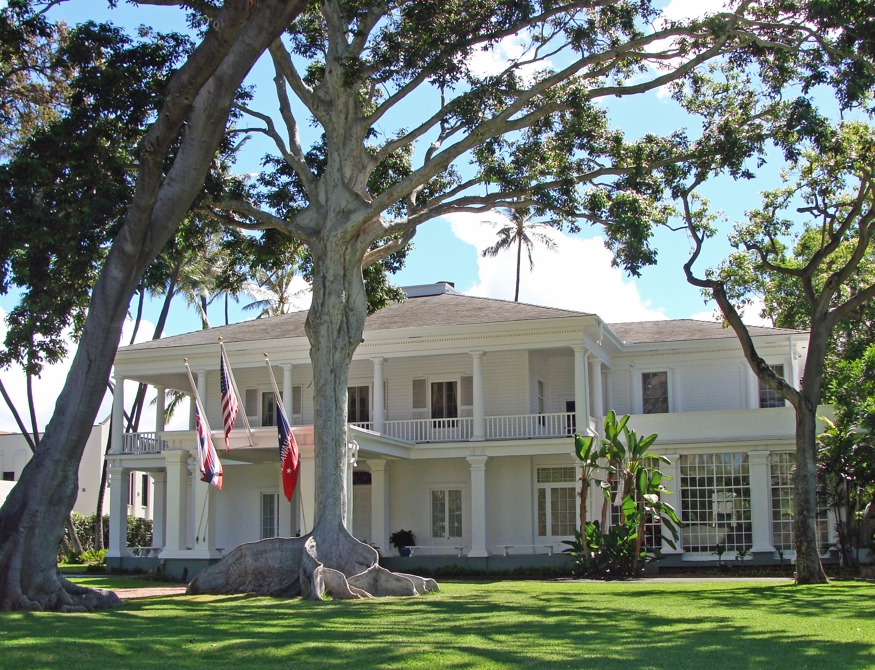 Picture of Washington palace in Honolulu, HI